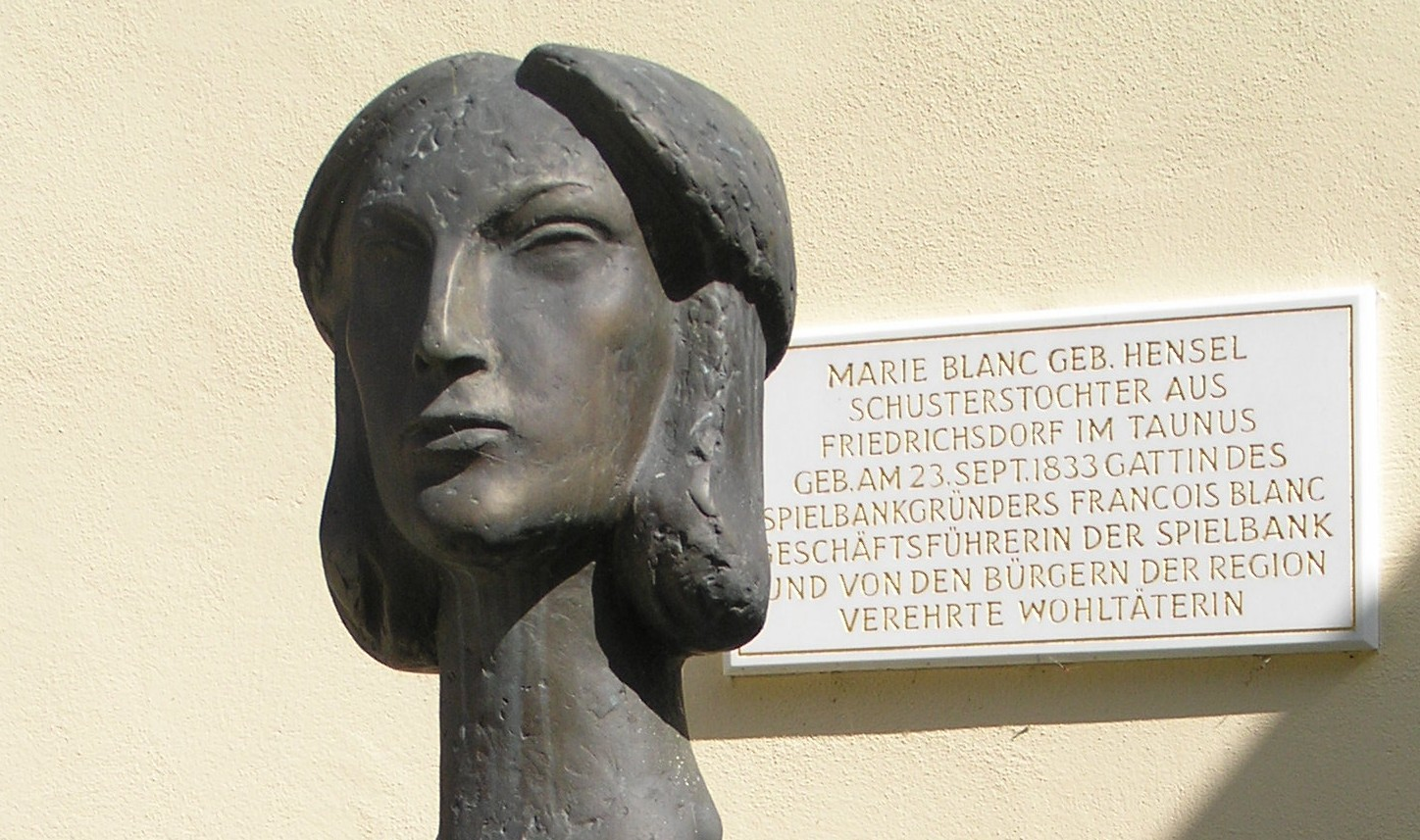 Sculpture of Marie Blanc at the right front entrance of the Casino Bad Homburg, Germany